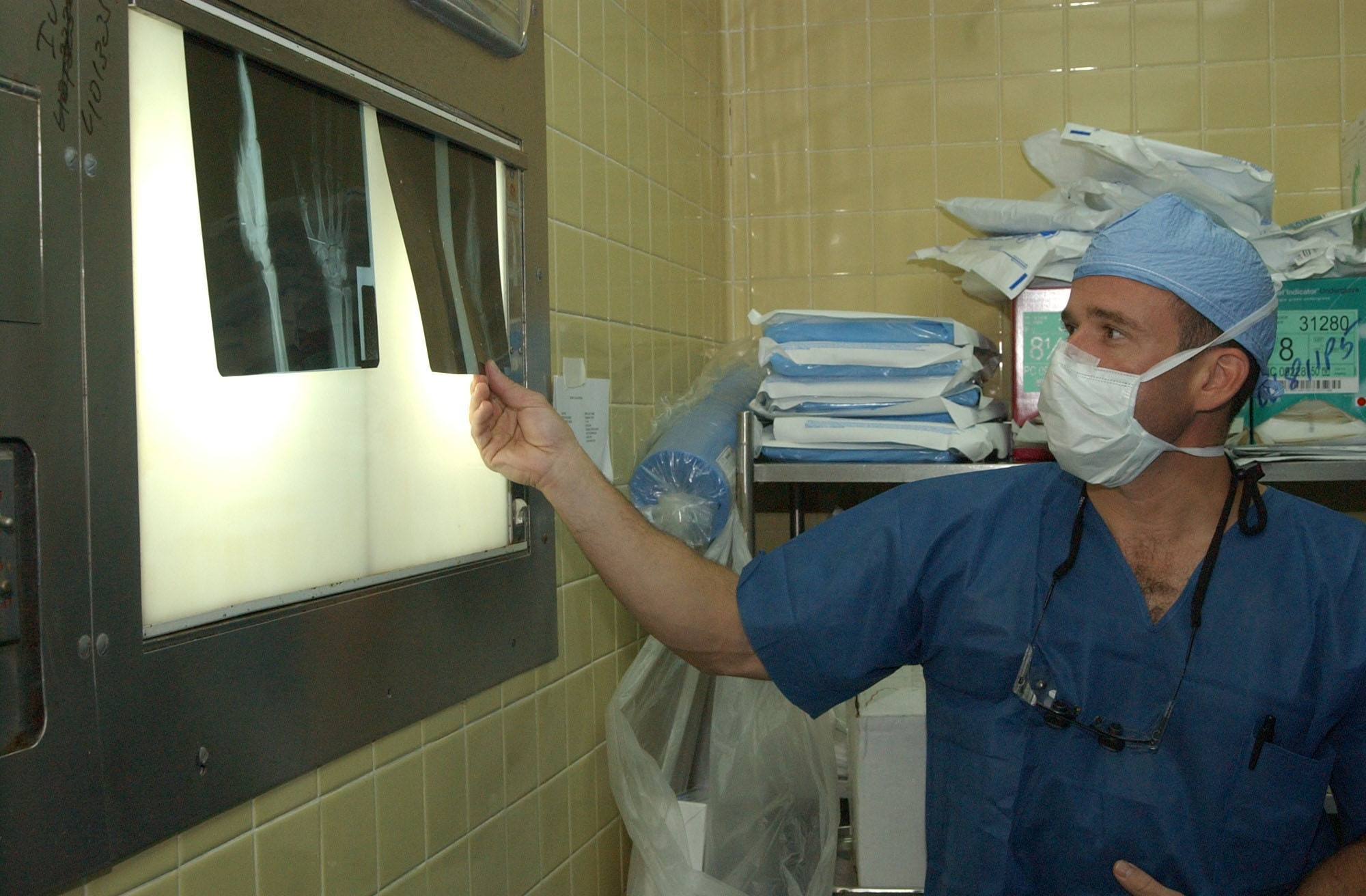 Army Lt. Col. (Dr.) Martin Baechler, an orthopedic surgeon from Walter Reed Army Medical Center, examines a patient's X-ray at Hospital Escuela in Tegucigalpa, Honduras, during MEDRETE (U.S. Army)